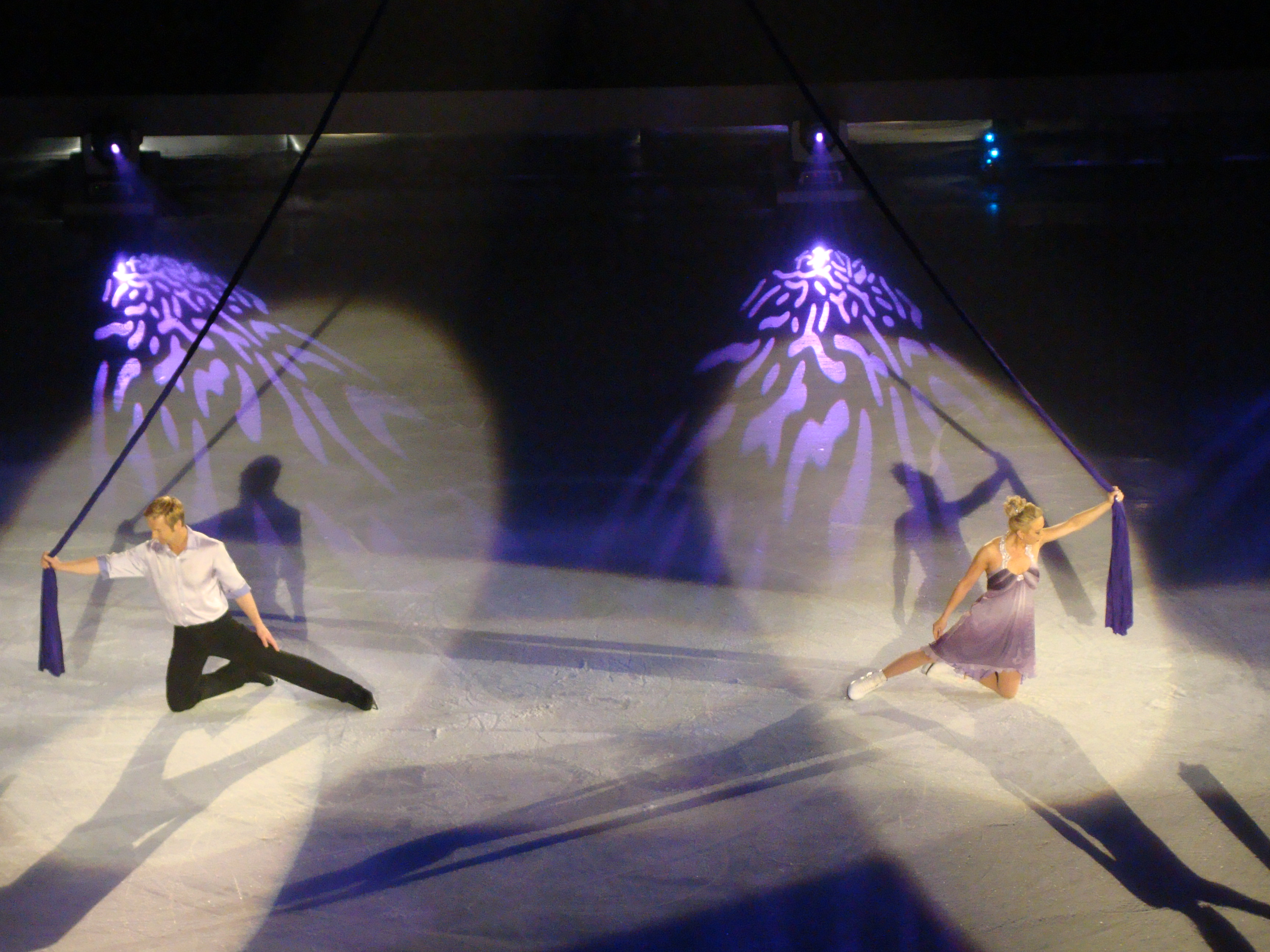 Christopher Dean + Jayne Torvill